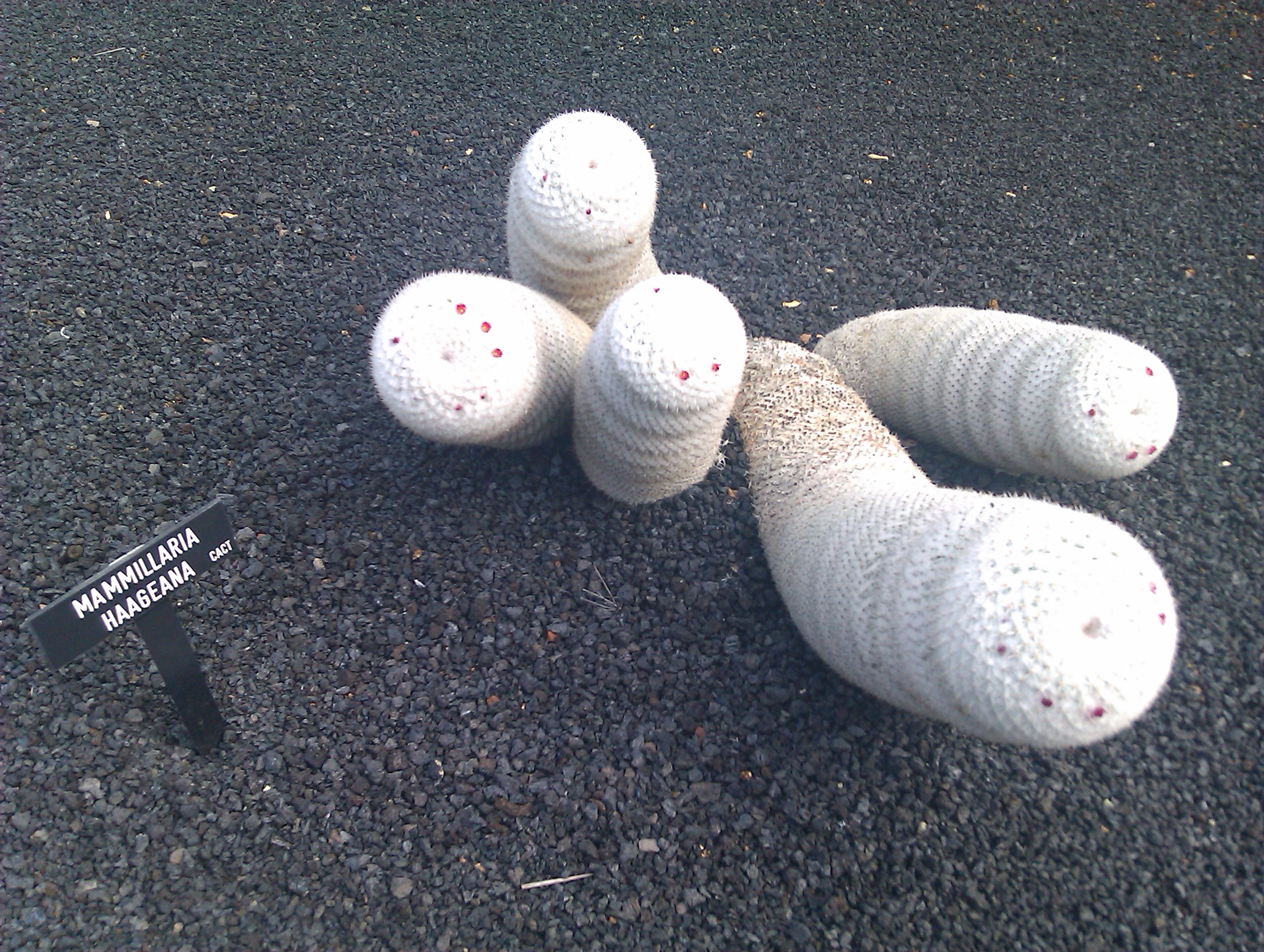 Photo taken at Jardín de Cactus, Lanzarote, Spain. Mammillaria haageana.